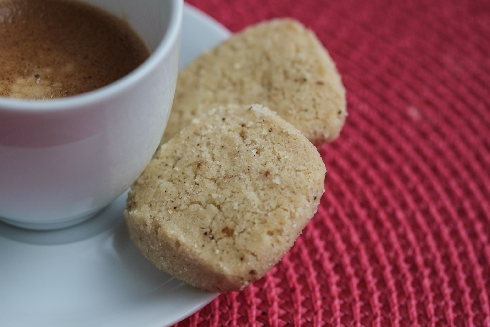 Heidesand, german cookies made of shortcrust pastry with melted browned butter